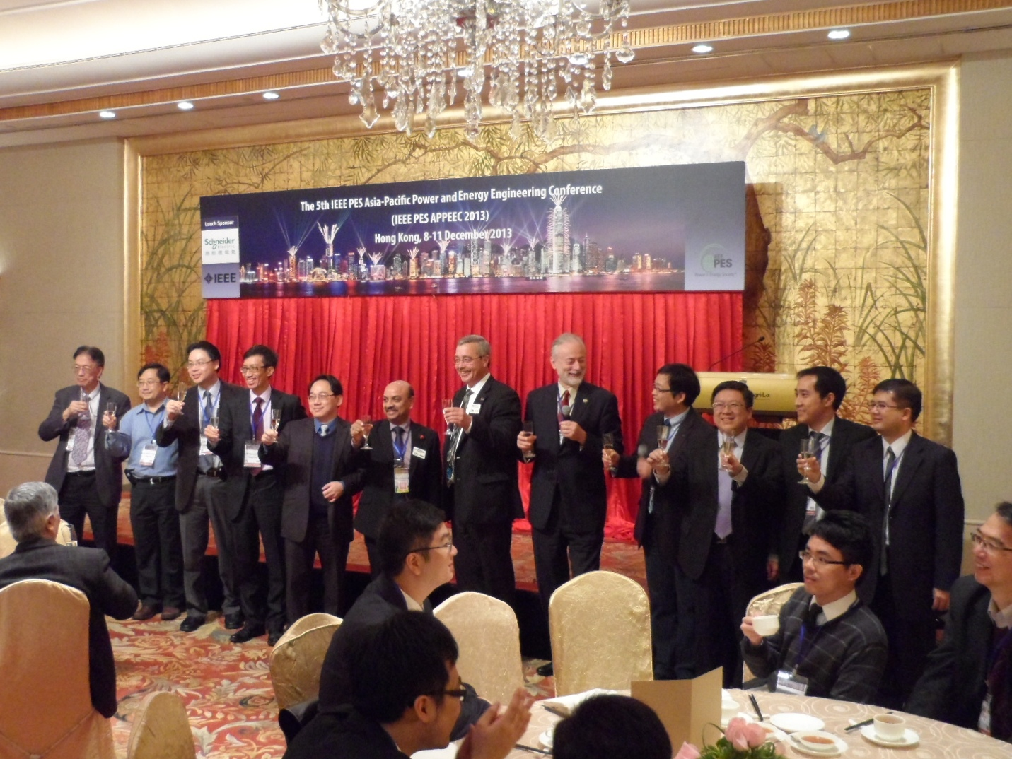 The 5th IEEE PES Asia-Pacific Power & Energy Engineering Conference, Kowloon Shangri-La Hotel, Hong Kong, China